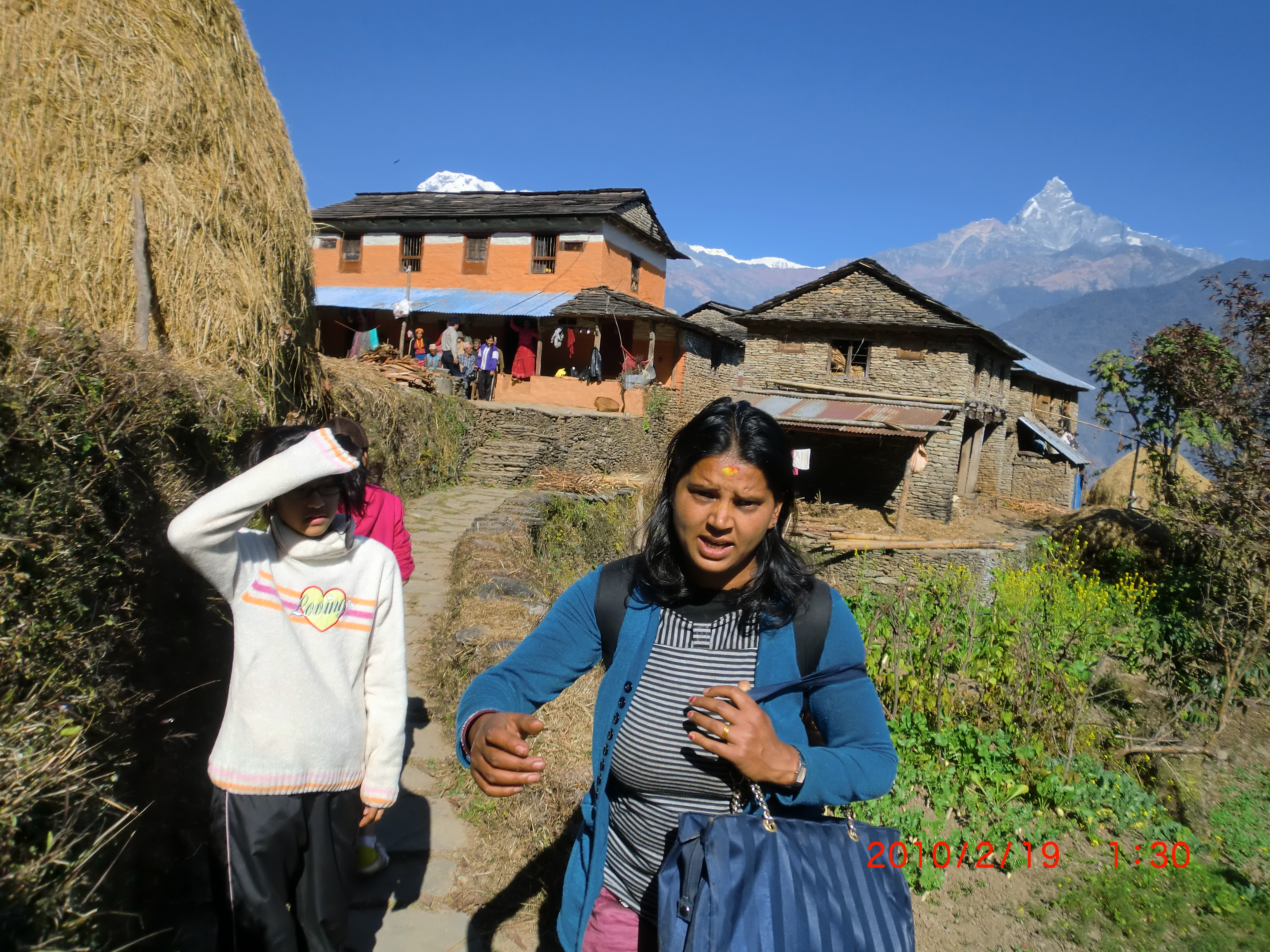 Dhital Village Tourism and Annapurna